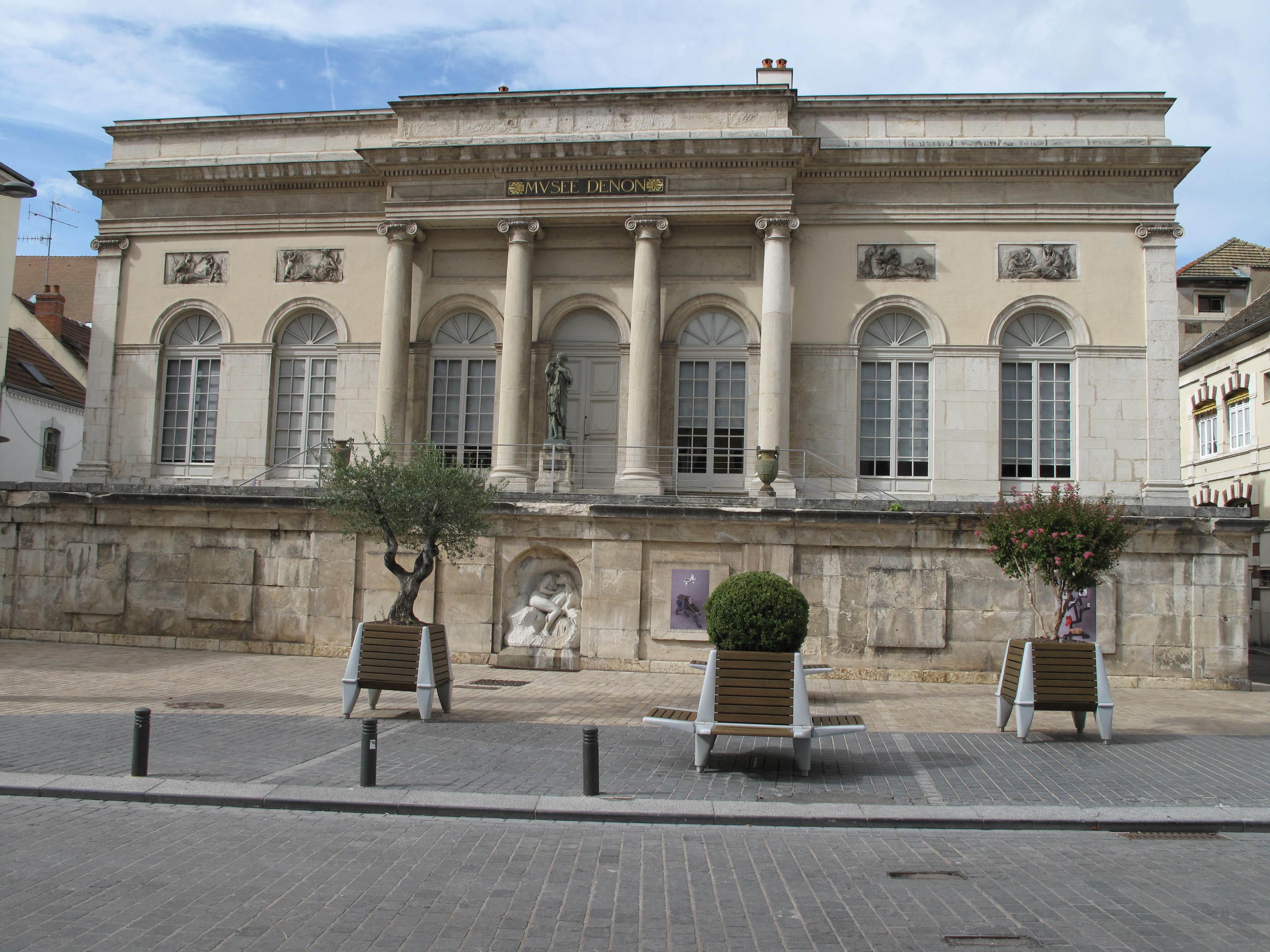 Museum Denon : place de l’hôtel de ville, Chalon-sur-Saône, France